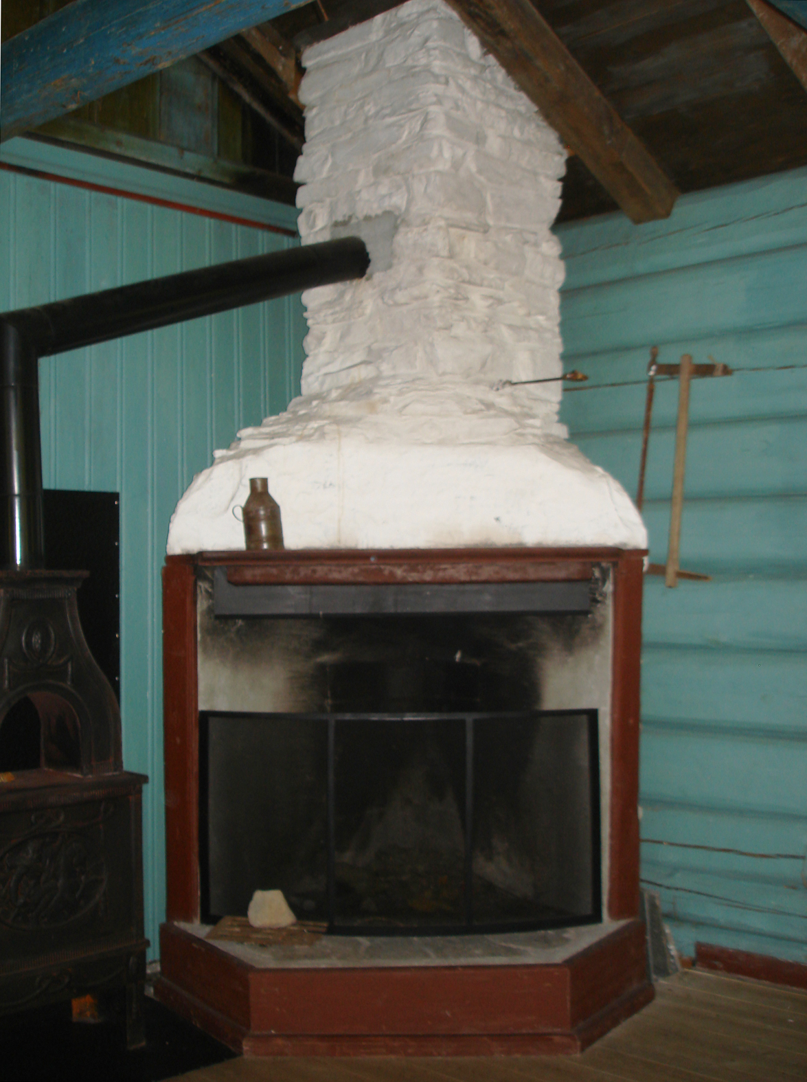 Fire place in farmhouse from Torpo, Hallingdal, Norway